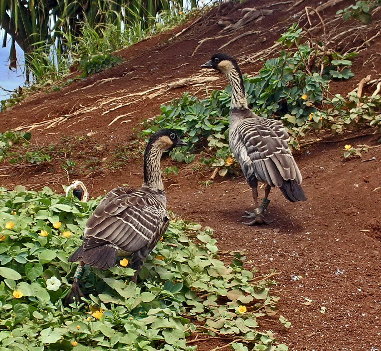 Two Nēnē (Branta sandvicensis) at the "Kilauea Point National Wildlife Refuge" Kaua'i, HI Photo by Alejandro Bárcenas (2006)